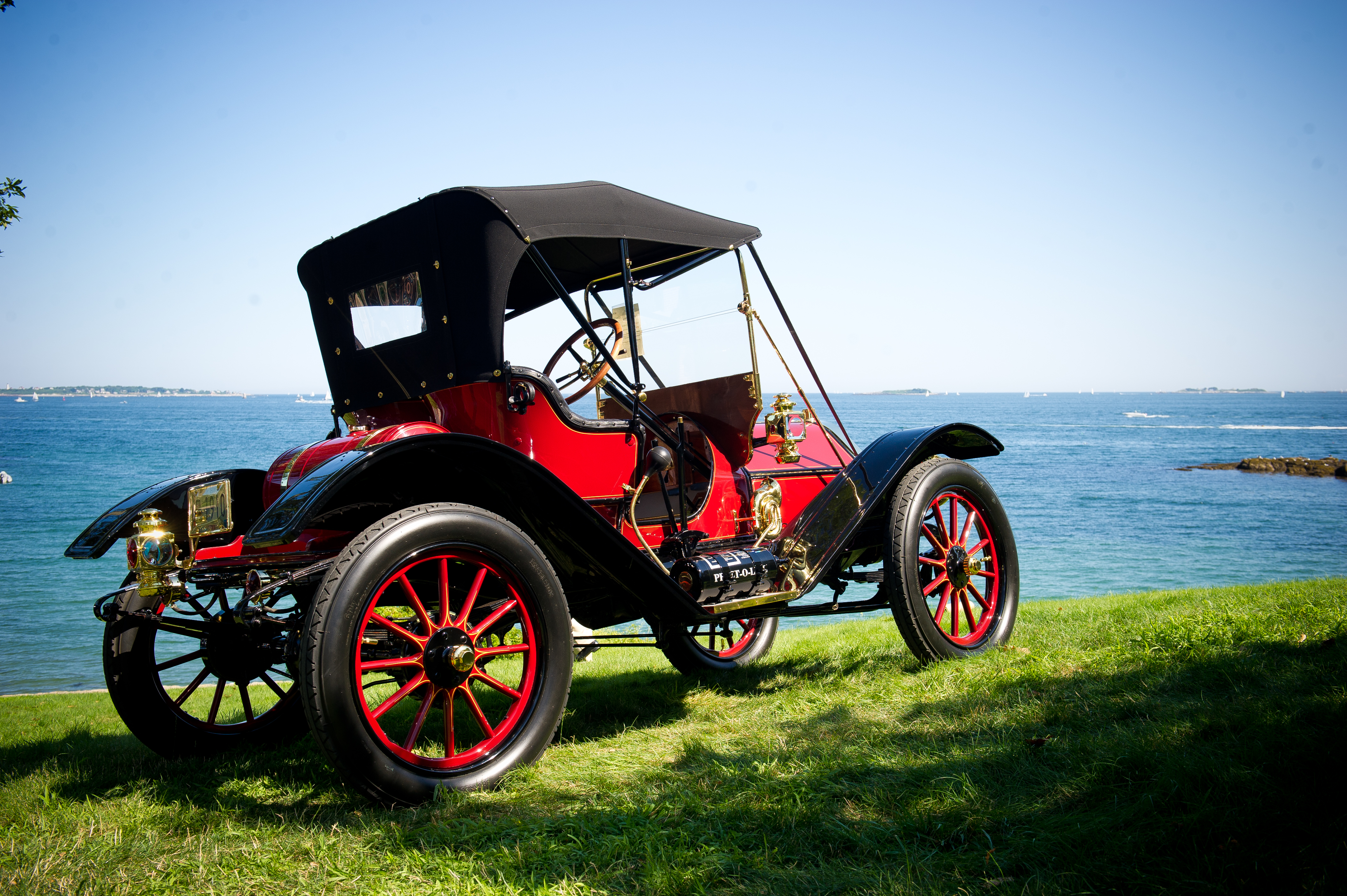 1910 Oakland at the Misselwood Concours d'Elegance, overlooking nthe Atlantic Ocean